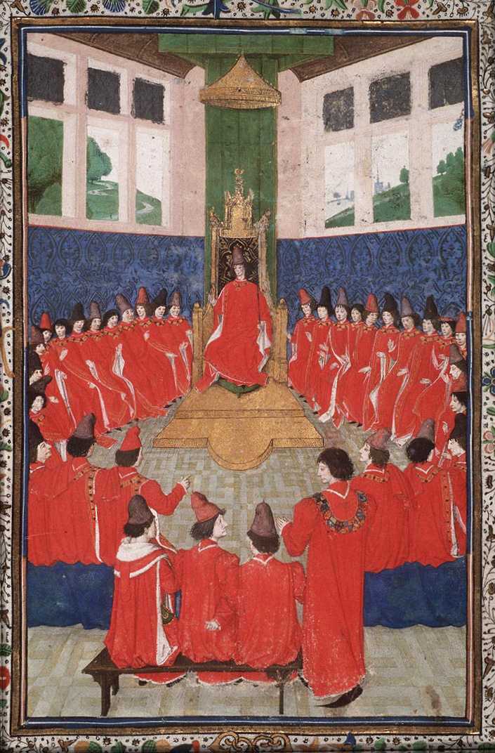 Statuts, Ordonnances et Armorial de l'Ordre de la Toison d'Or (Statutes, Ordonnances and armorial of the Order of the Golden Fleece) Place of origin, date: Southern Netherlands; 1473. Added sections: Southern Netherlands; 1478 or shortly after and 1491 or shortly after Material: Vellum, ff. 86, 249x187 (167x106) mm, 23 lines, littera cursiva (lettre bourguignonne). French. Binding: 18th-century brown leather Decoration: 1 full-page miniature (170x115 mm) with border decoration; 92 miniatures (185/155x120/100 mm); 1 historiated initial (80x90 mm) with border decoration; decorated initials with border decoration (ff., Added section: miniatures ; 4 drawings for miniatures (not finished) Provenance: Presented in 1473 by Gilles Gobet, King of Arms of the Order of the Golden Fleece, to Charles the Bold, Duke of Burgundy and the other Knights during the Chapter of the Order held at Valenciennes; Treasure of the Golden Fleece, Brussls; taken away by the Treasurer C.-F. Humyn (d. 1735) or his daughter C.Ch. de Corte; by legacy to her daughter M.-L. de Corte, wife of Ph.-E. de Poederlé; purchased in 1781 at the Poederlé sale by G.-J- Gérard of Brussels; acquired in 1832 as part of the Gérard collection (no. A 27)